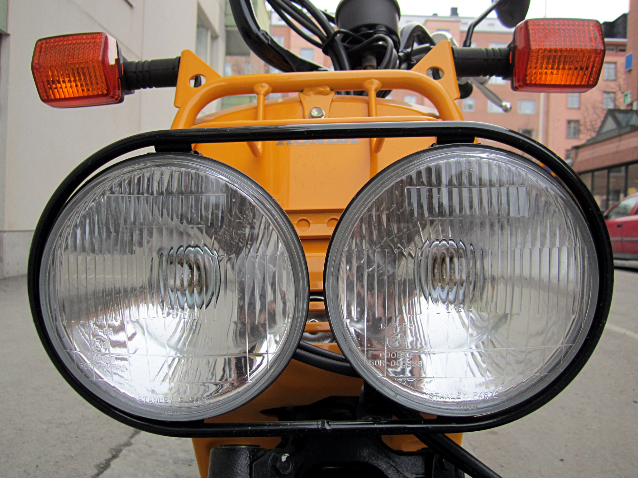 Honda Zoomer NPS50 motor scooter. Dual headlight.